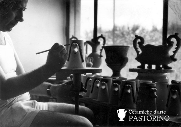 The ceramic artist Mario Pastorino while decorating the cups were commissioned by Lavazza Torino Italy